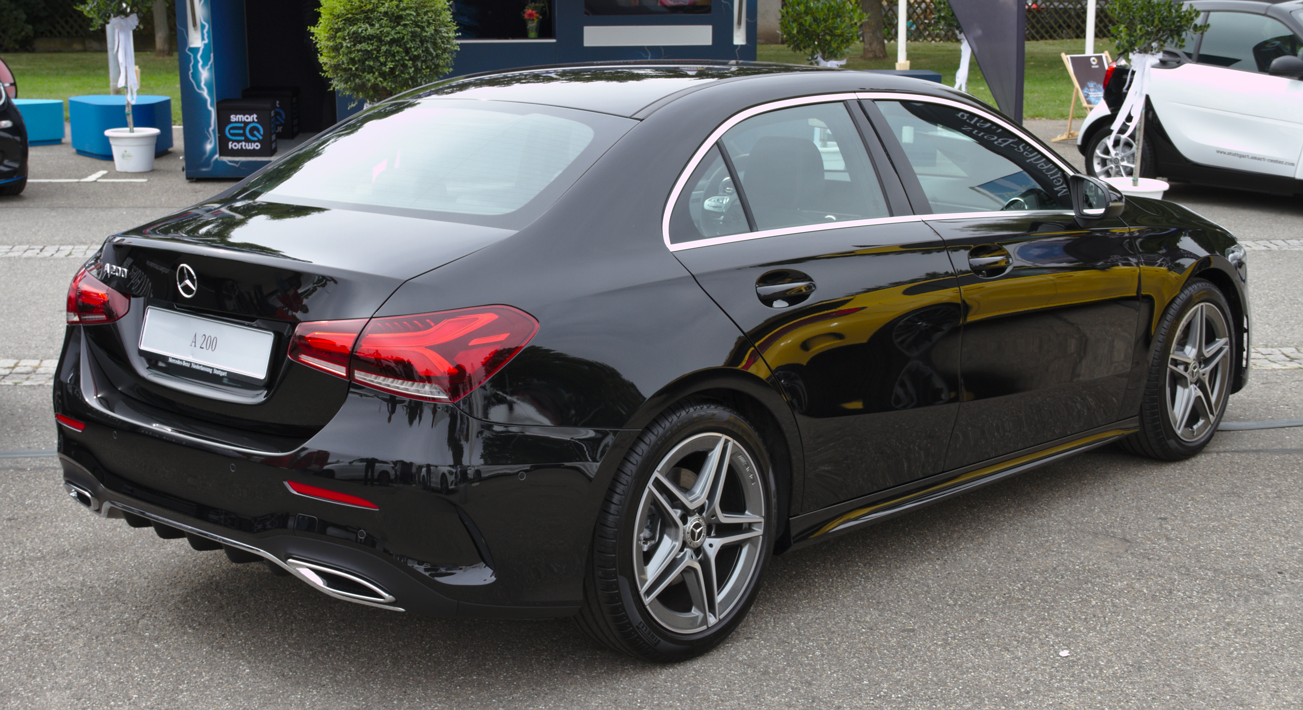 Mercedes-Benz_V177 at Leonberger Autoschau 2019